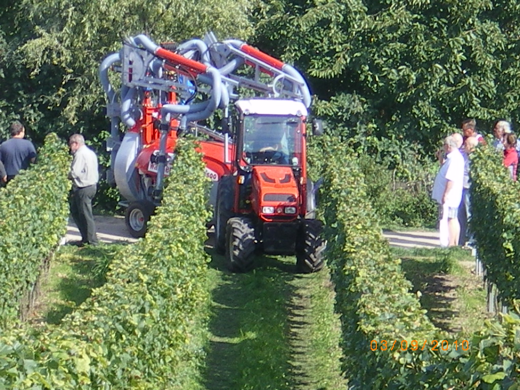 101PS Allradschmalspurschlepper mit mehrzeiliger Pflanzenschutztechnik